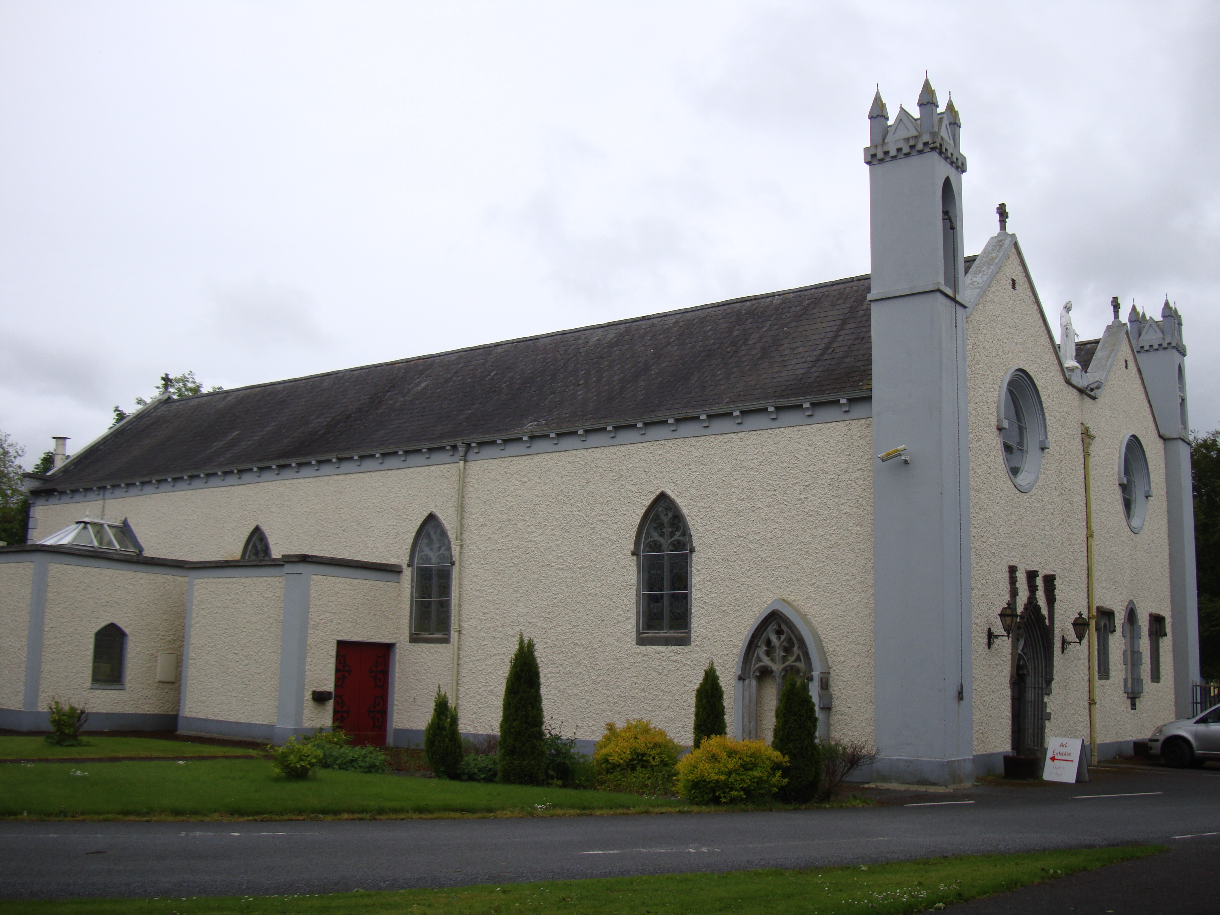 Photograph of Ballyhaunis Friary, Co. Mayo, Ireland